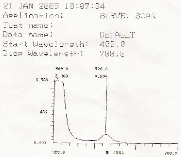 A UV–vis readout of meso-tetraphenylporphyrin in DMF (appeared orange in solvent)